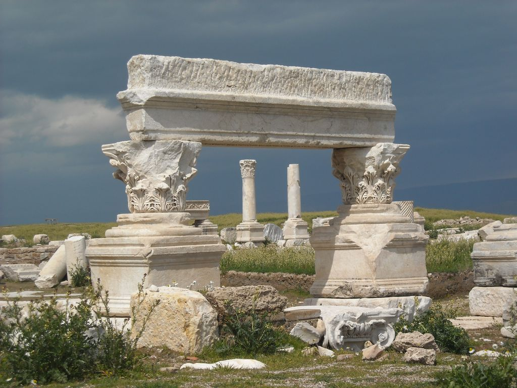 Laodicea - Lycos